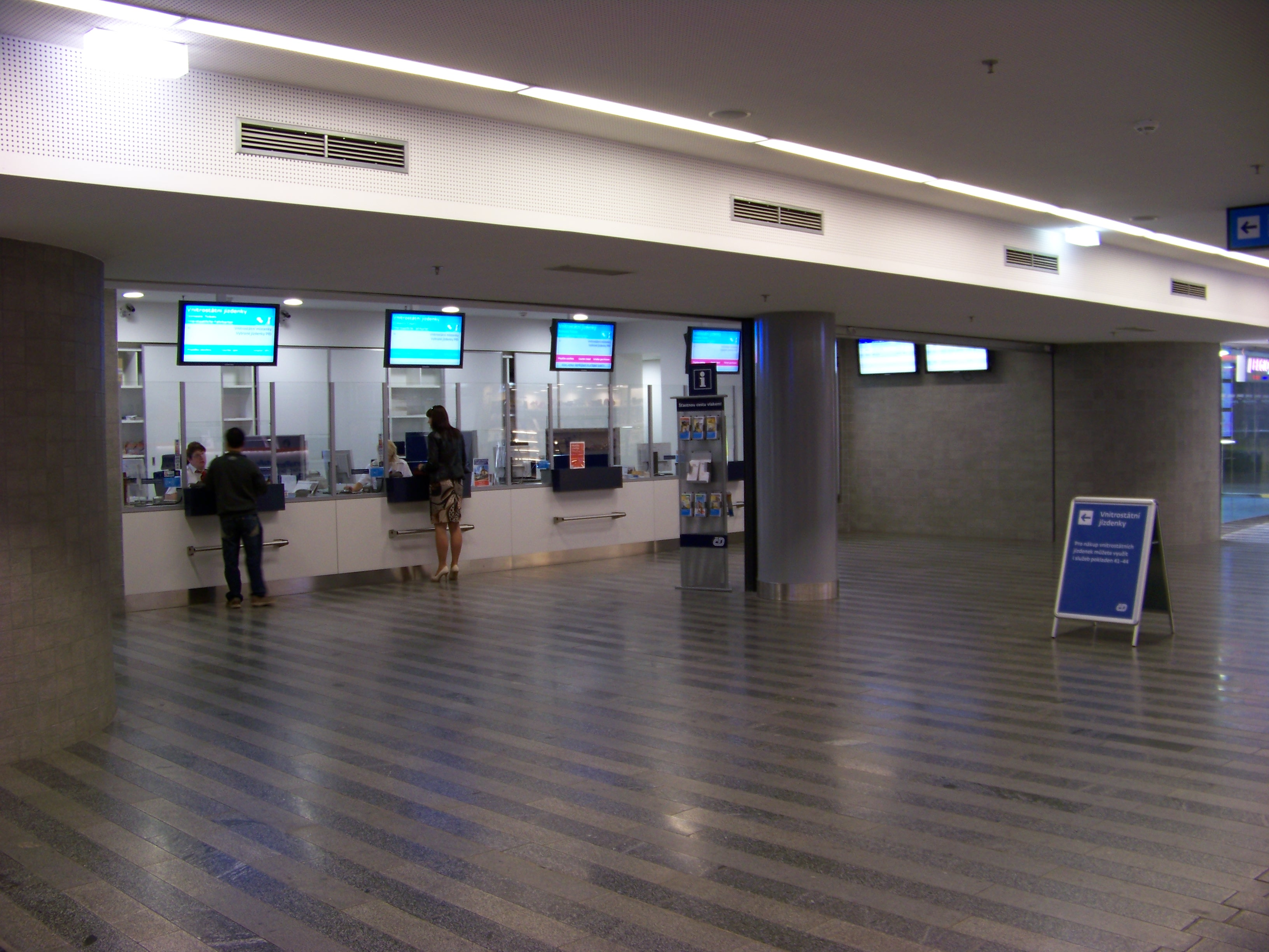 Prague-New Town and Vinohrady, the Czech Republic. Prague Main Station, ticket counters No. 41–44).